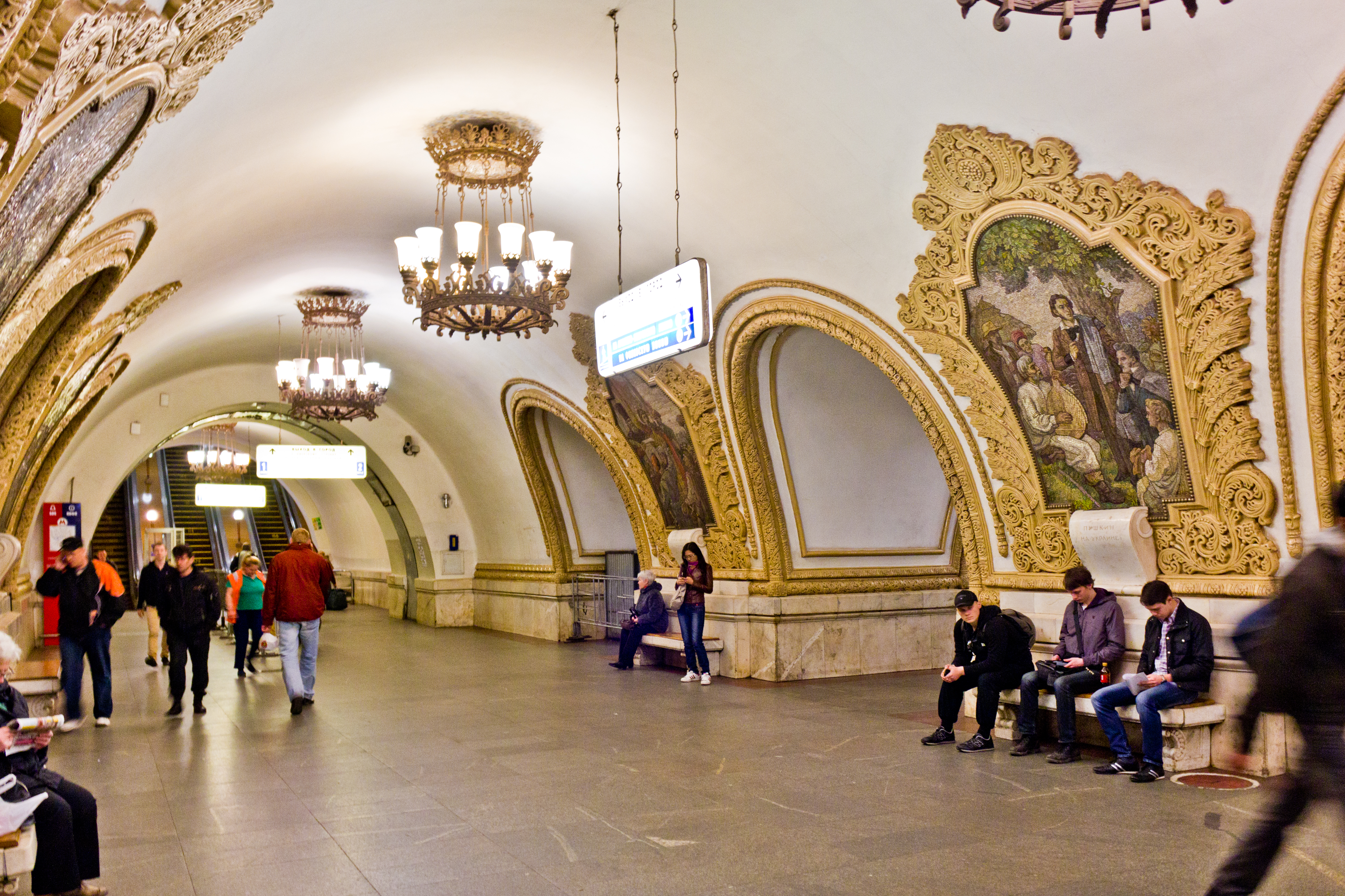 Kievskaya-Koltsevaya Moscow Metro station.